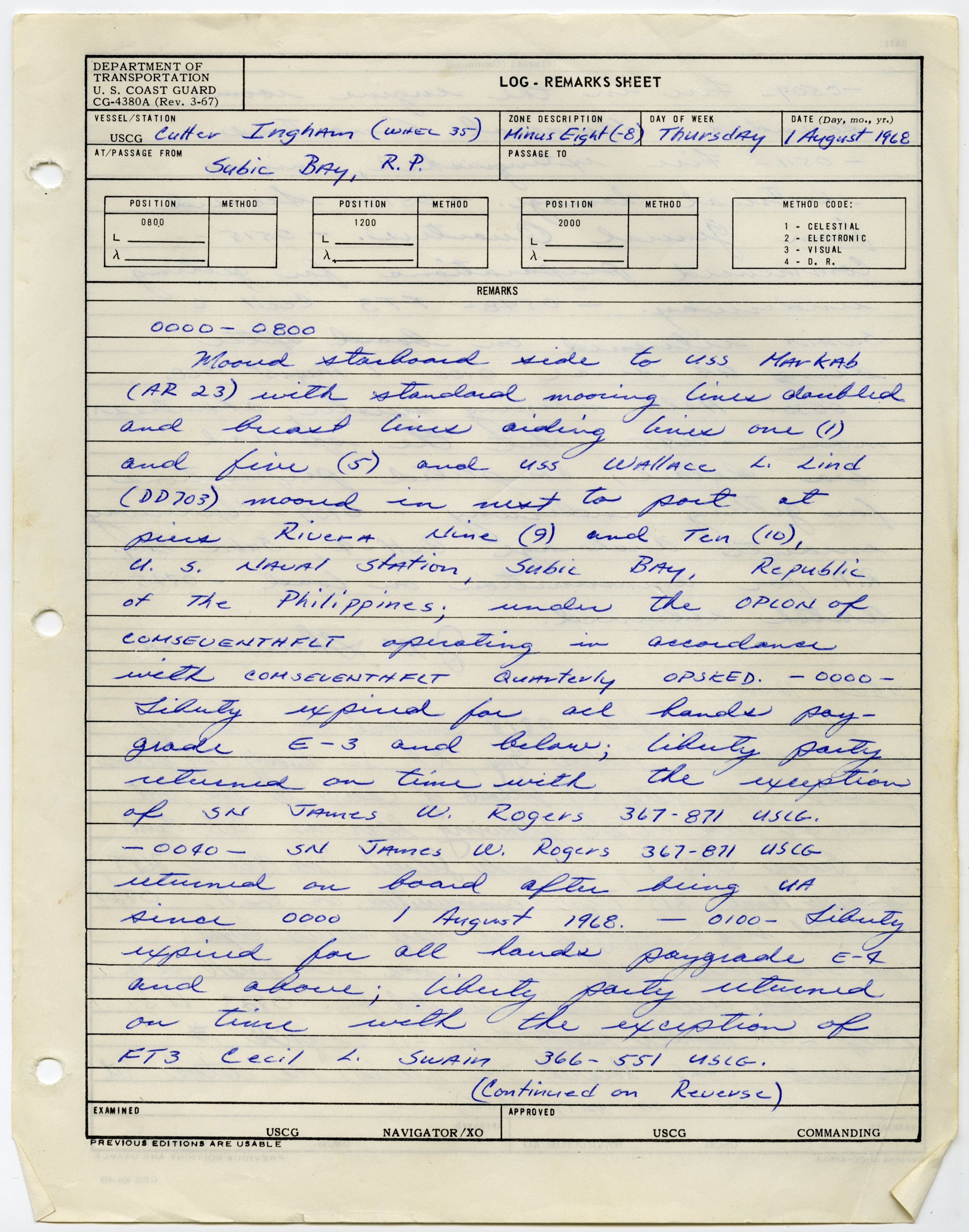 USCGC Ingham (WHEC-35) Logbook, August 1968